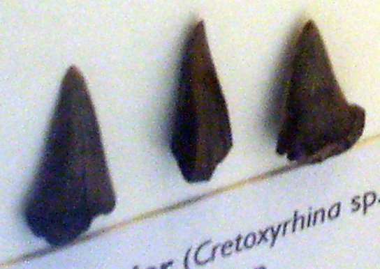 Cretoxyrhina sp. teeth from the older Cenomanian of the Madsegrav at Arnager, Denmark, exhibited at the Geological Museum, Copenhagen.